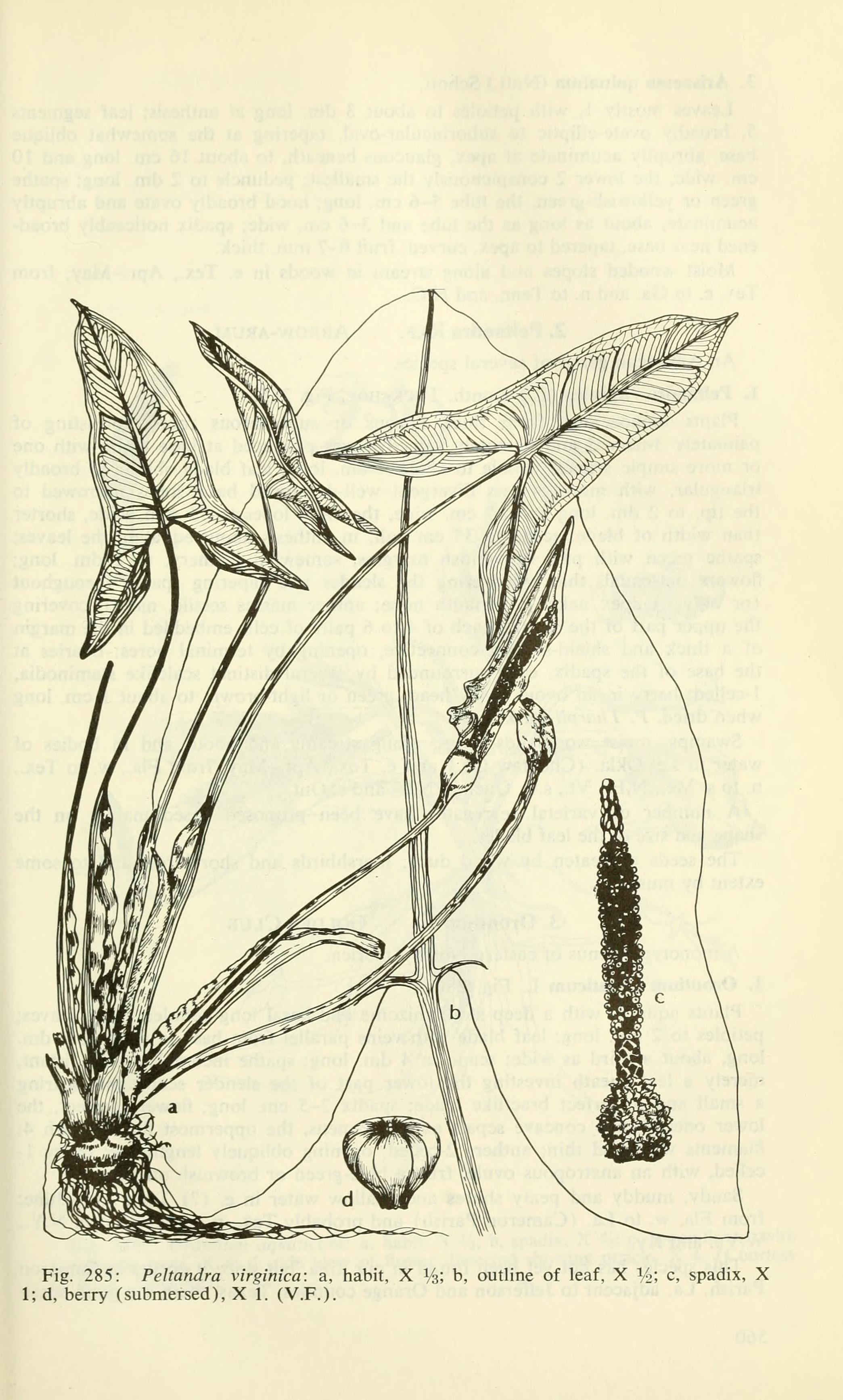 Aquatic and wetland plants of southwestern United States, by Donovan S. Correll and Helen B. Correll.